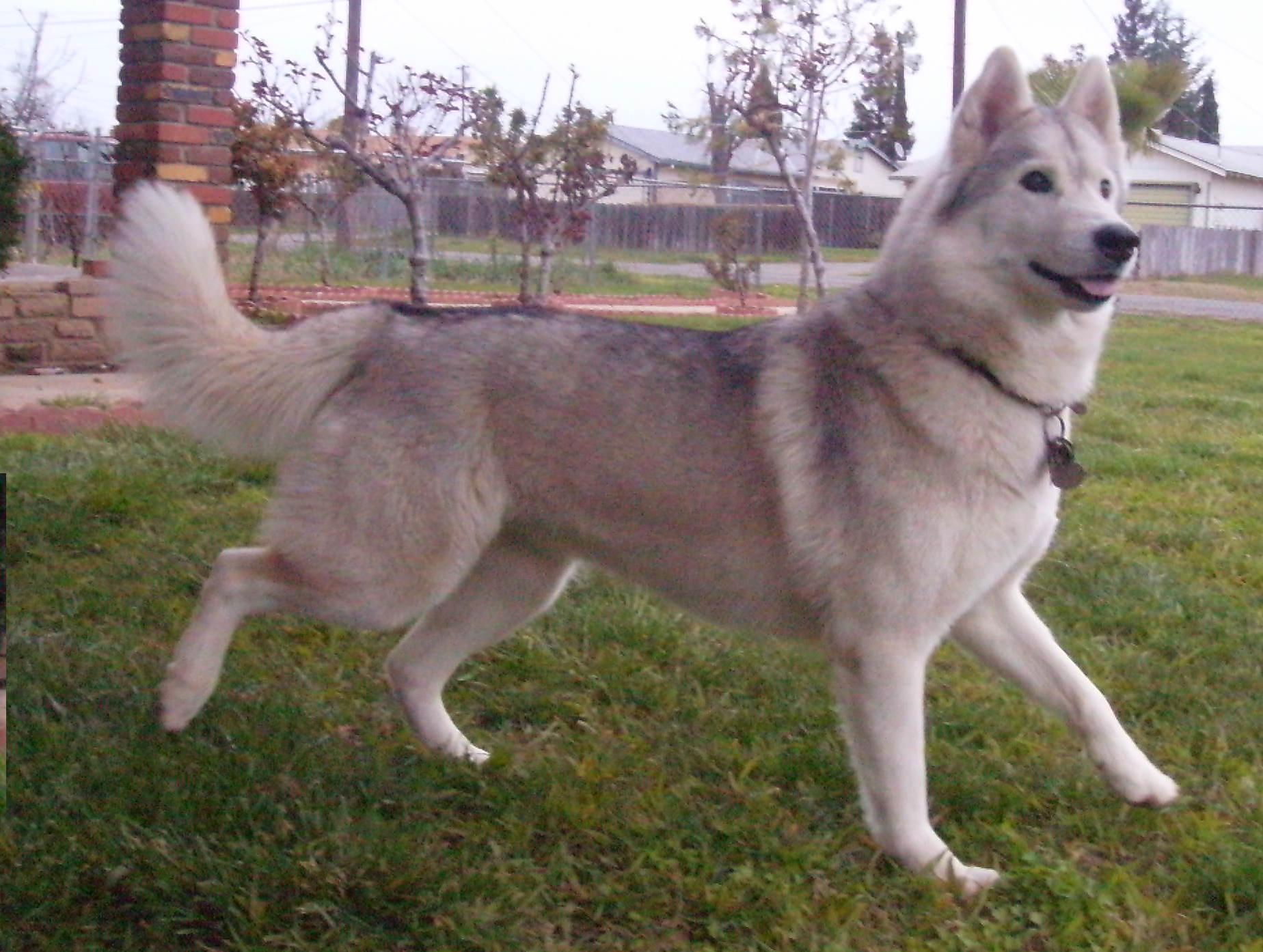 A Siberian husky